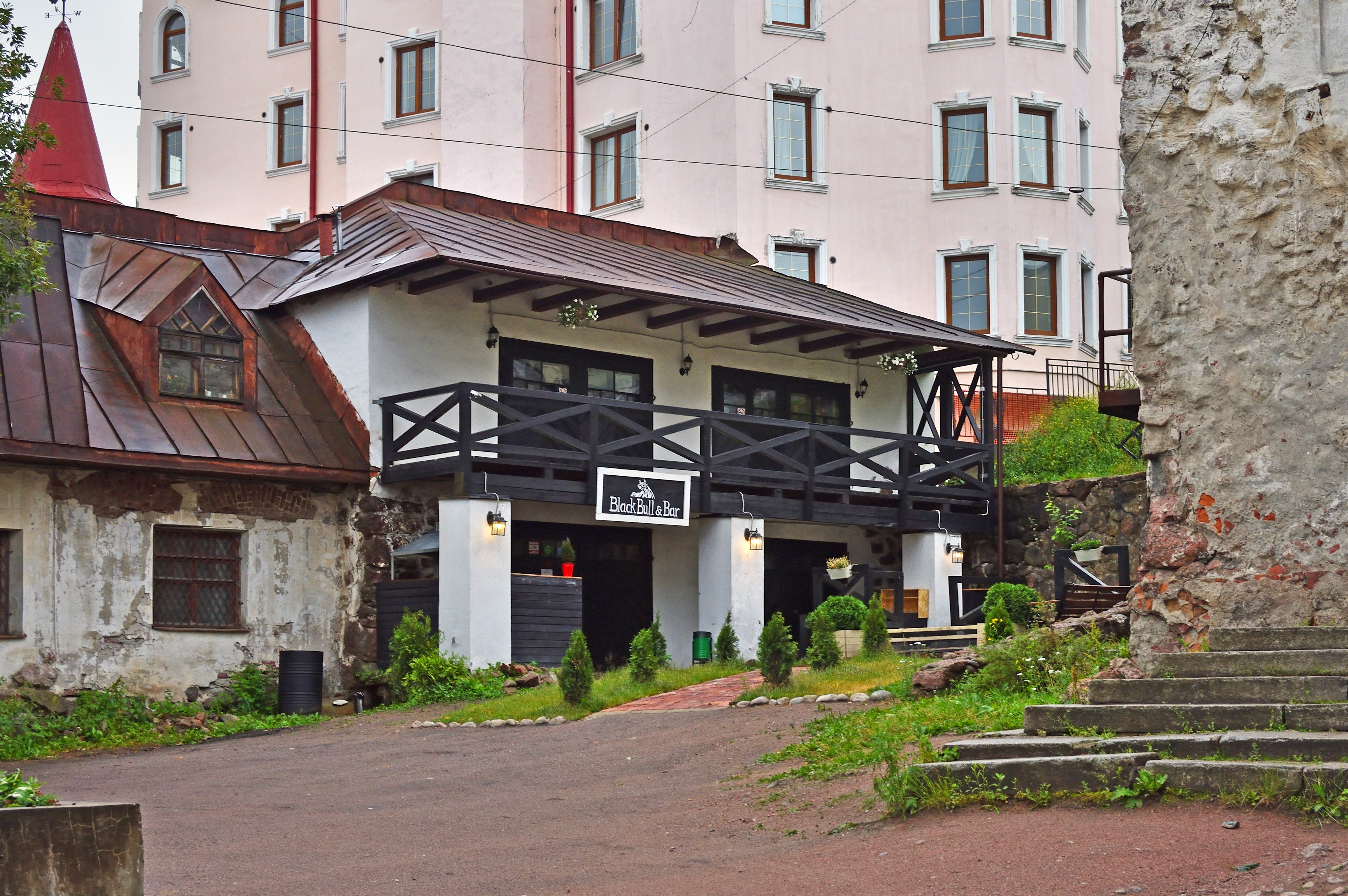 Carriage shed, Progonnaya street 7B, Vybord, Leningrad oblast, Russia